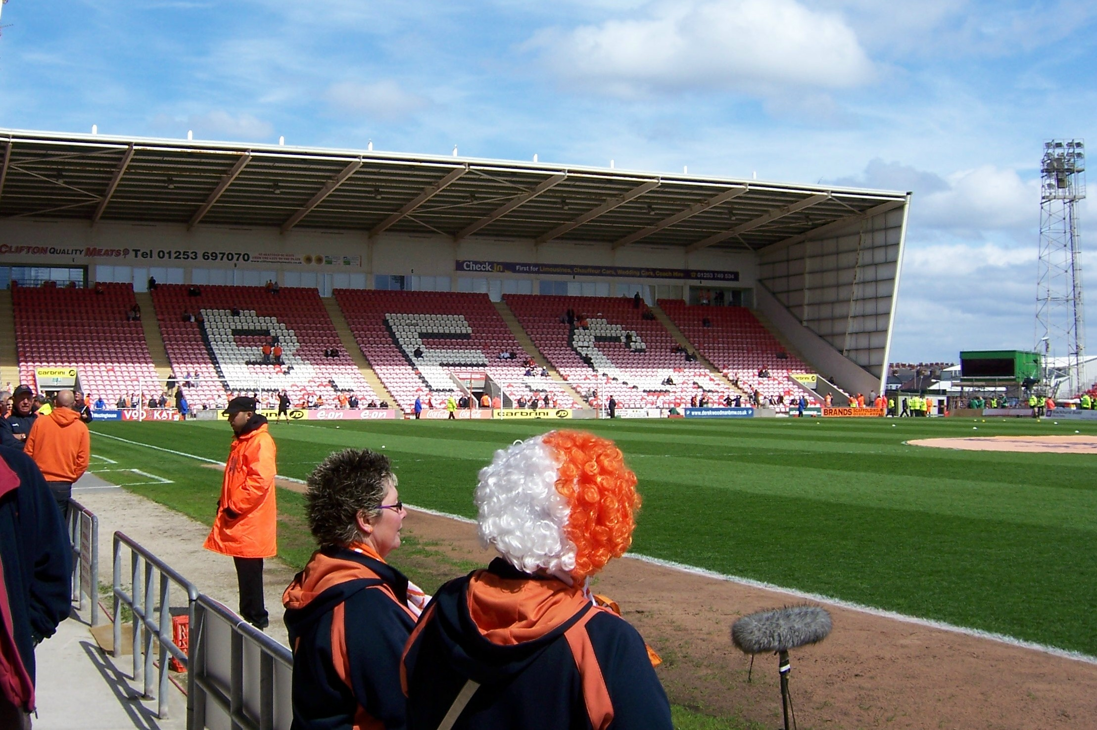 North Stand at Bloomfield Road, Blackpool This picture was taken before the last 'proper' match of the 2009/10 season kicked off ... Blackpool were playing Bristol City. I say 'proper' because the 1-1 draw meant that Blackpool achieved a 'play-off' position and therefore an extra match at the stadium. I think that the supporter in the foreground was wearing a wig!*** The 'rat on a stick' in front of them is an effects microphone belonging to Sky TV who were televising the game. ***Only kidding ... of course it's a wig!